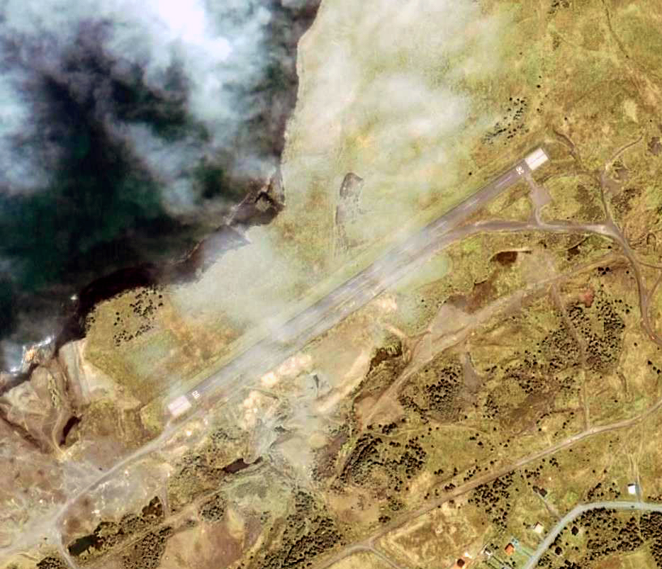 Bell Island Airport (CCV4), screenshot from NASA World Wind version 1.4.0